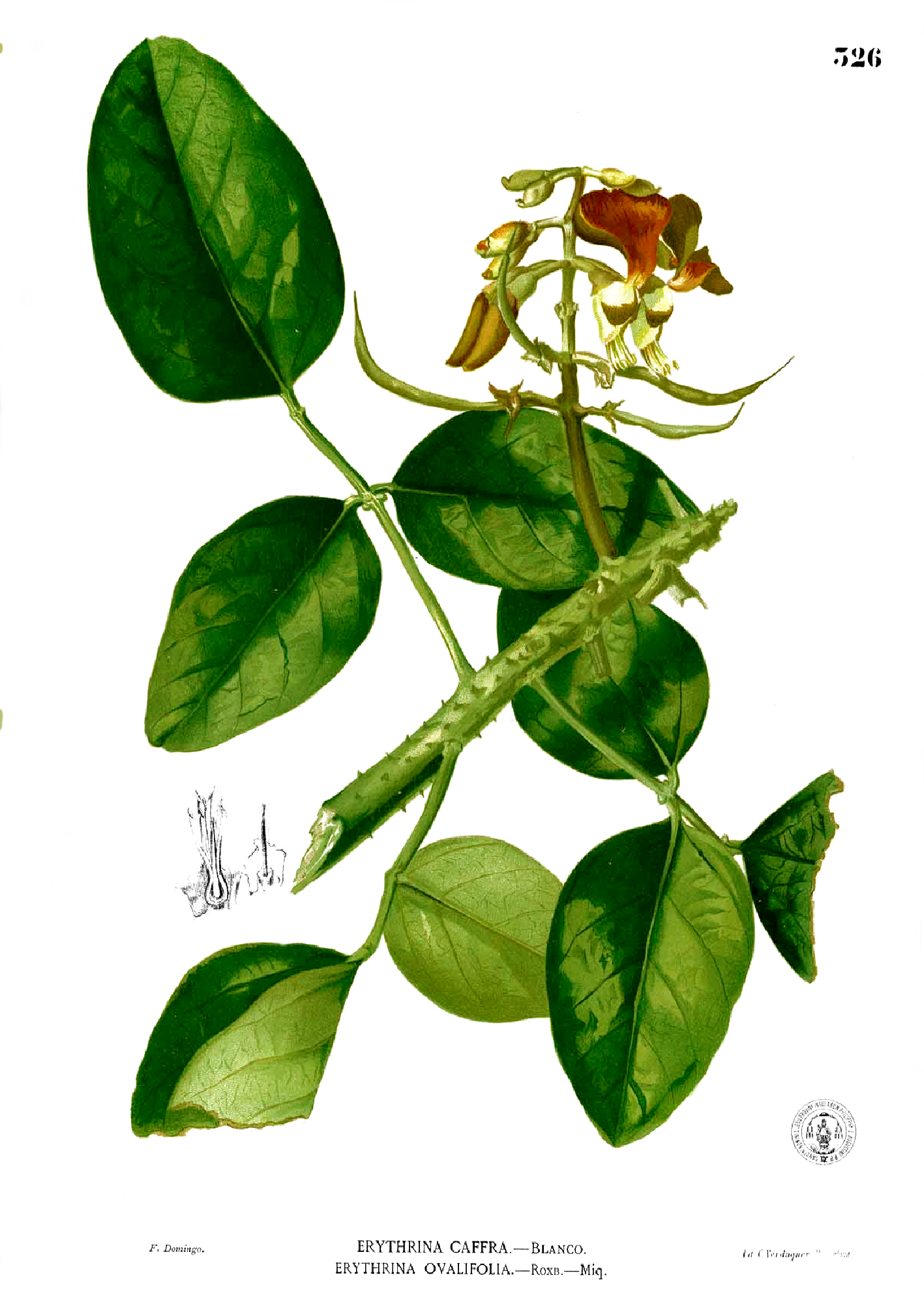 Plate from book